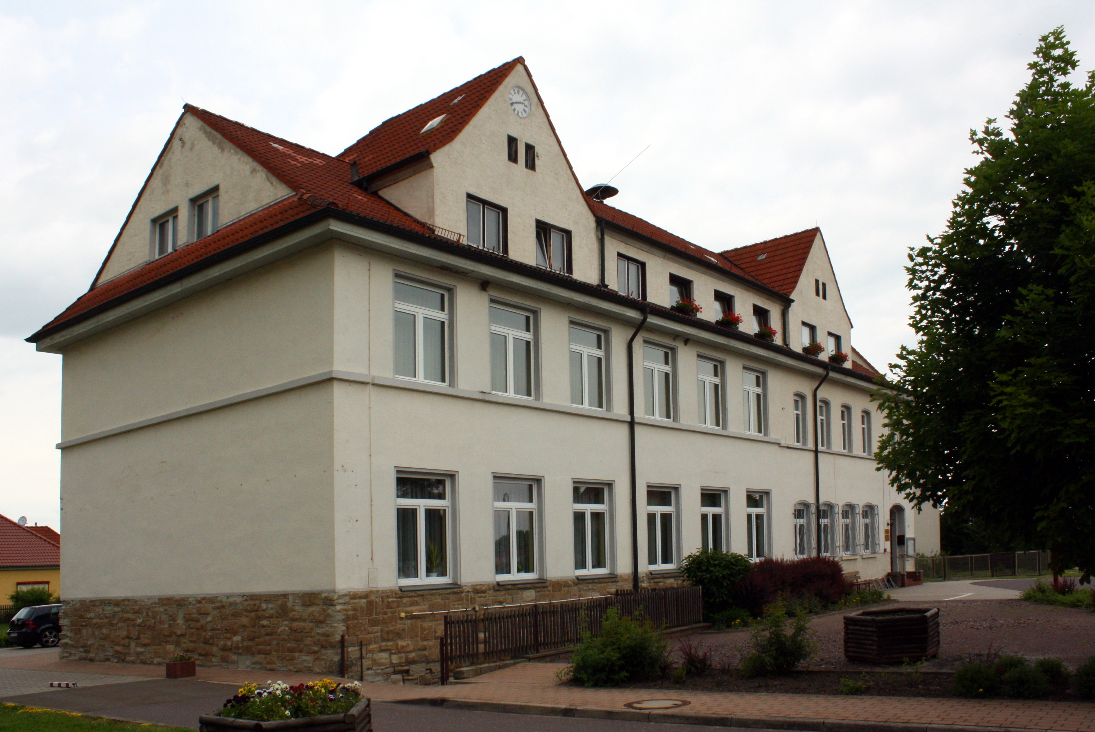 Municipal office in Haselbach near Altenburg/Thuringia